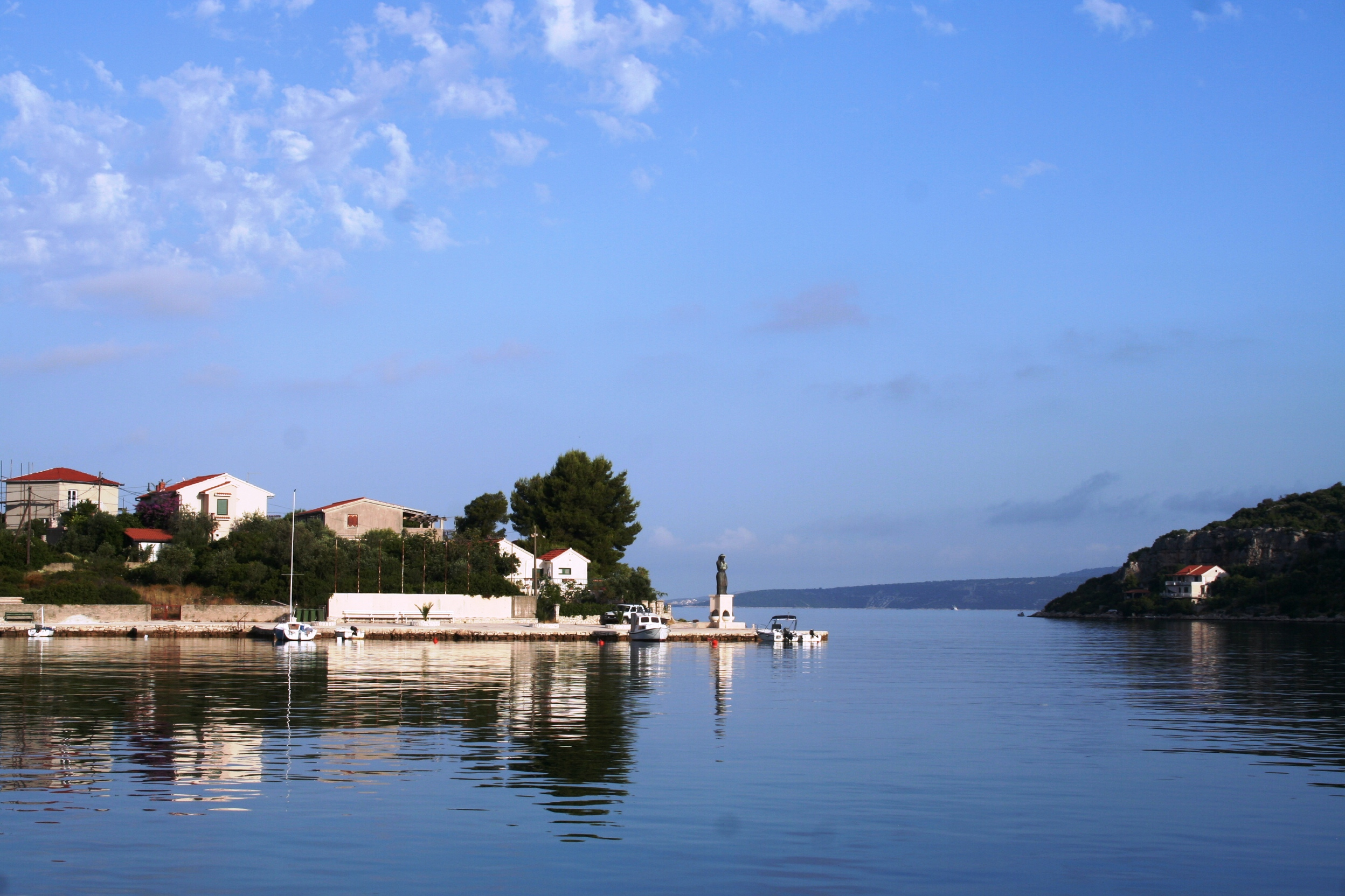 Island Drvenik Veli.